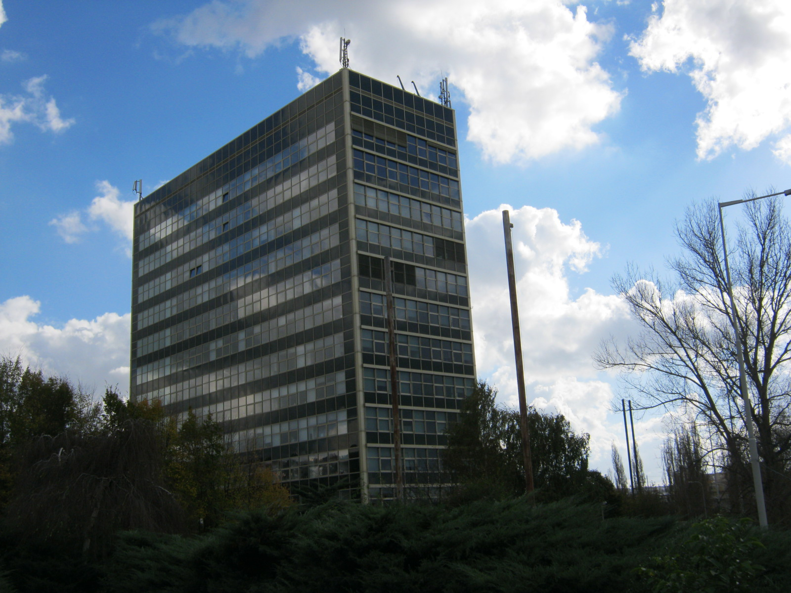 prague